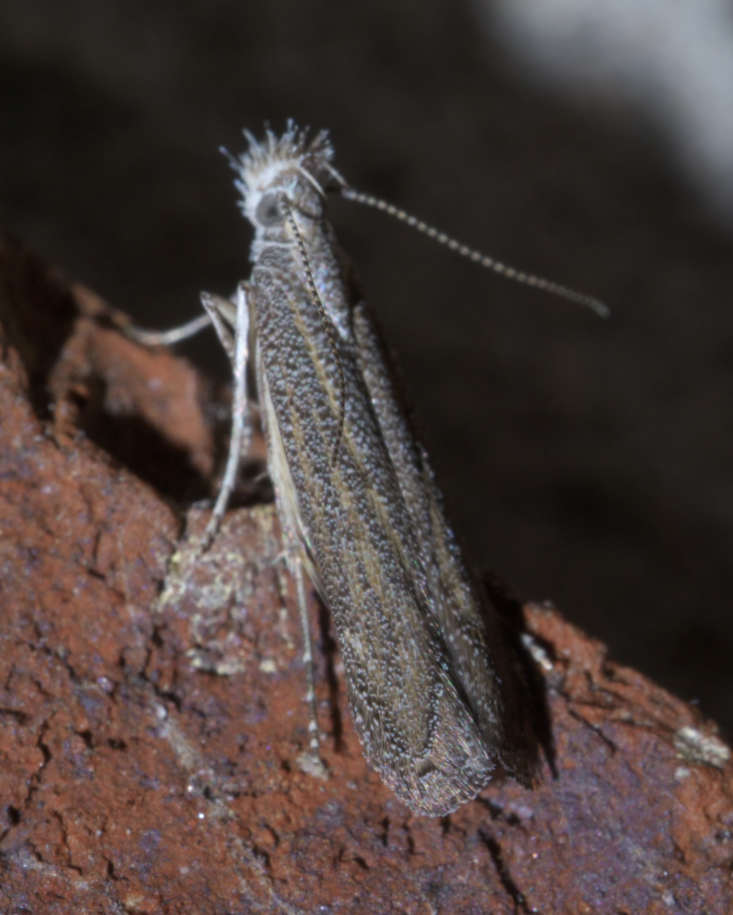 Isophrictis similiella, Hodges #1702, Possibly Isophrictis magnella, ID Confidence: 80